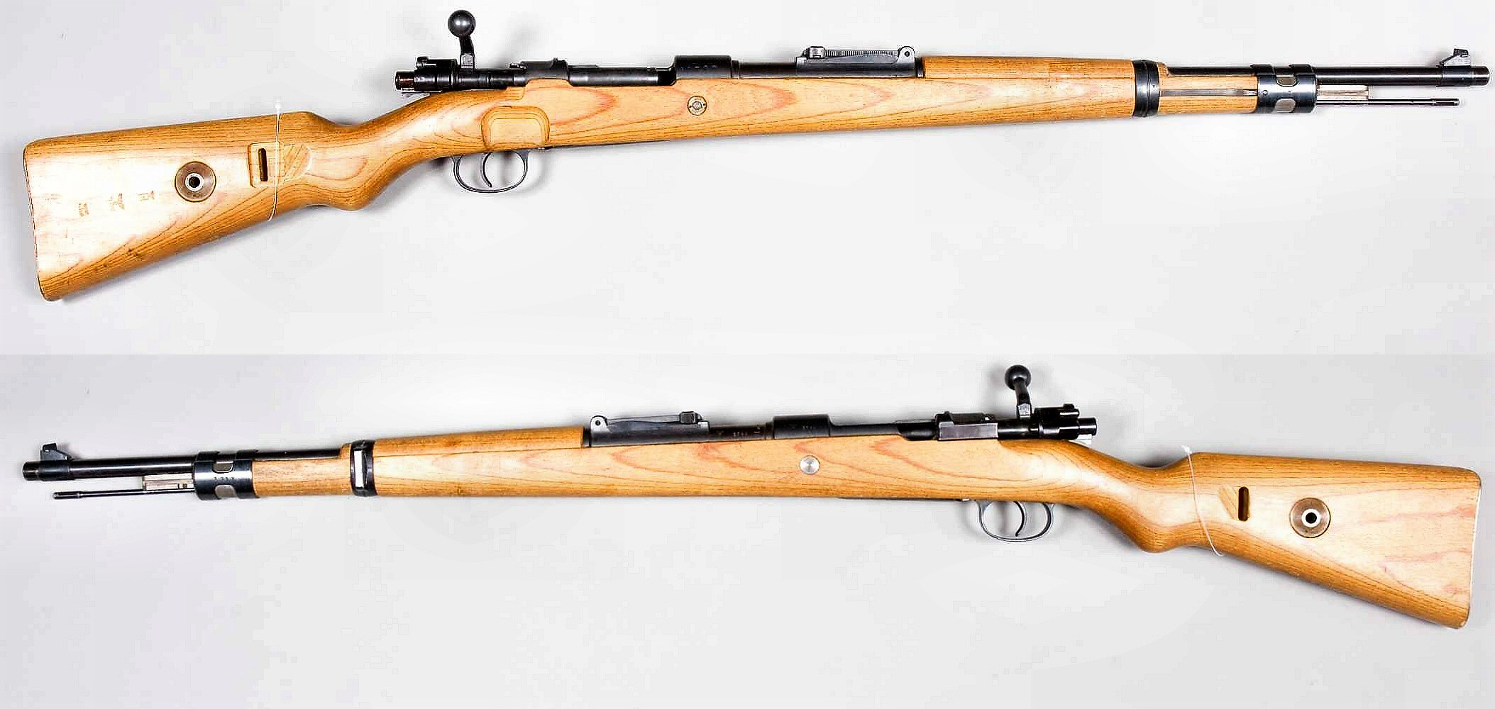 Karabiner 98K in mint condition. Caliber 7.92×57mm IS. Rifle made in 1940, received by Armémuseum as a gift from the German government. From the collections of Armémuseum (Swedish Army Museum), Stockholm, Sweden.